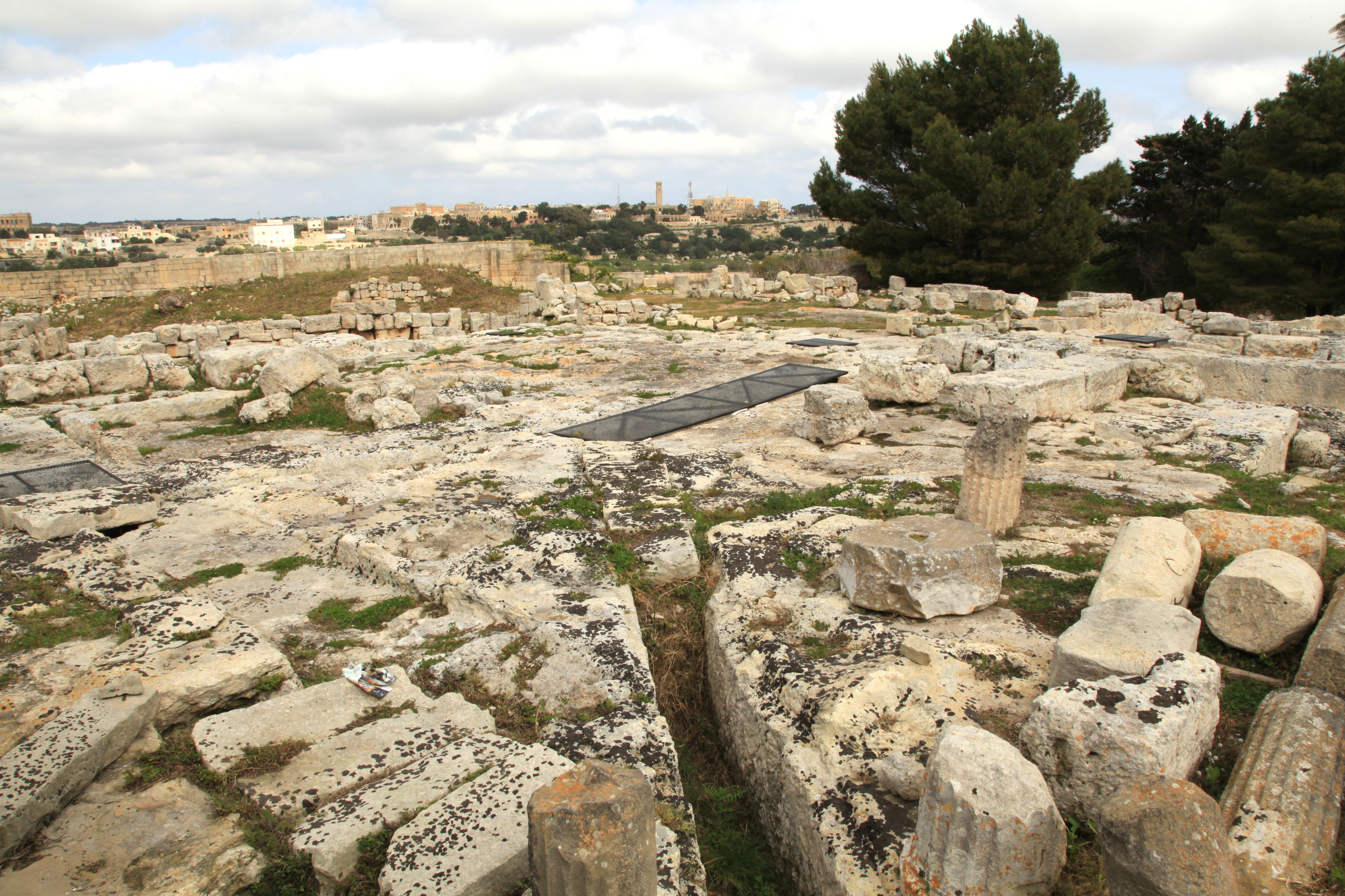 Domus Romana, Wesgħa tal-Mużew in Mdina, Malta